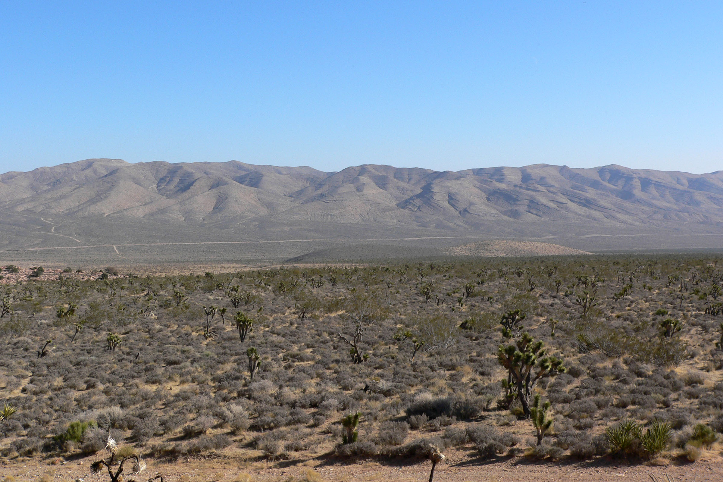 Bird Spring Range seen from Goodsprings Valley, southern Nevada